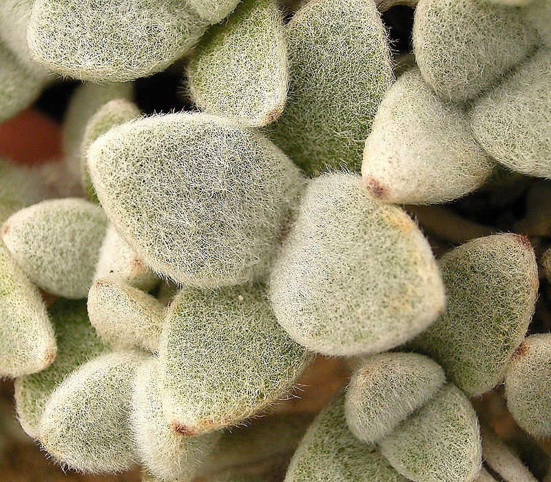 Kalanchoe eriophylla